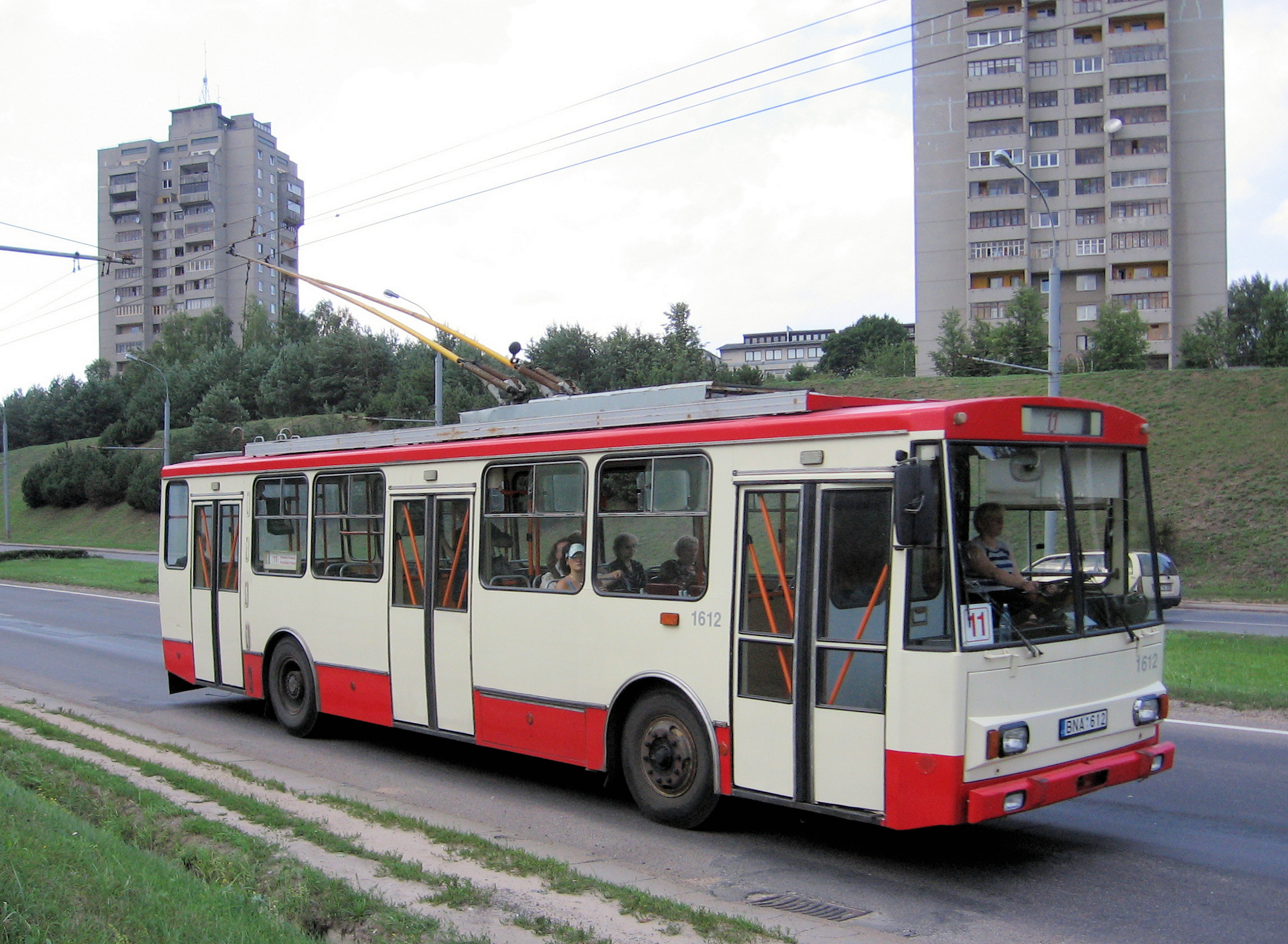 Škoda 14 Tr trolley bus.